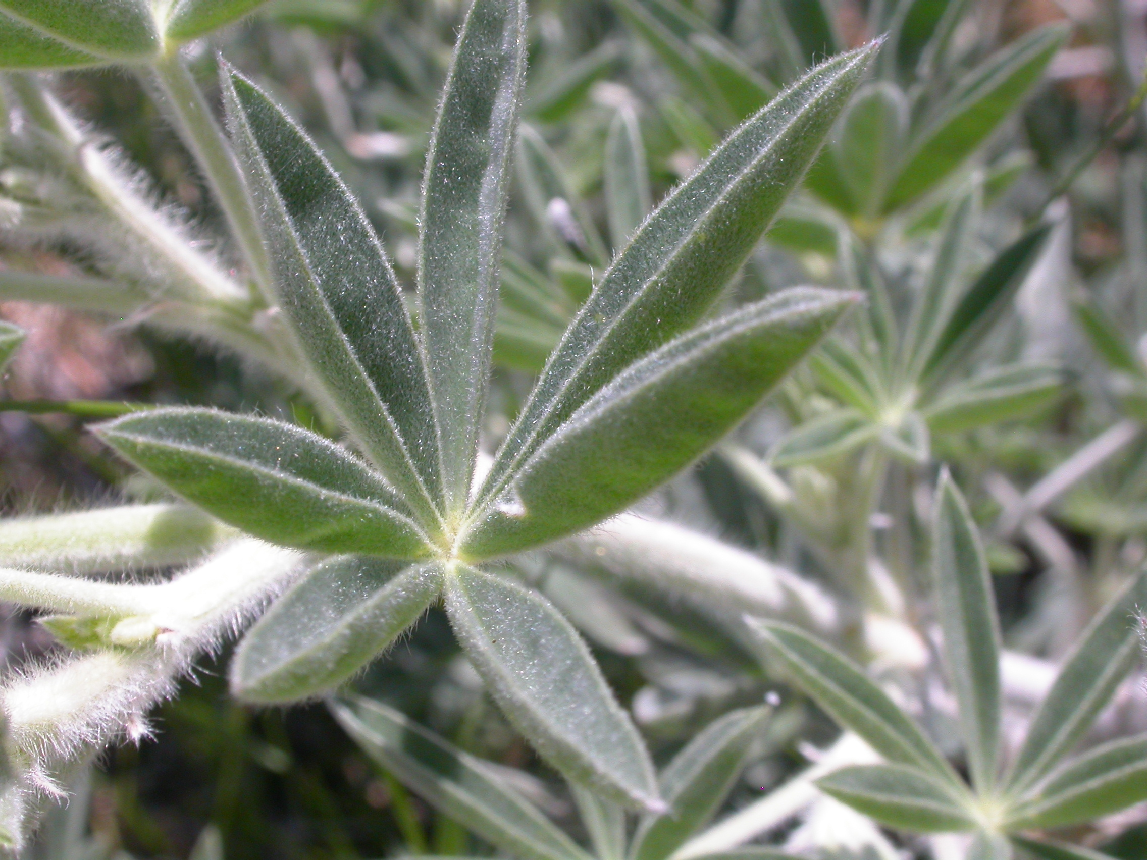 The palmately arranged leaflets are conspicuously silky.